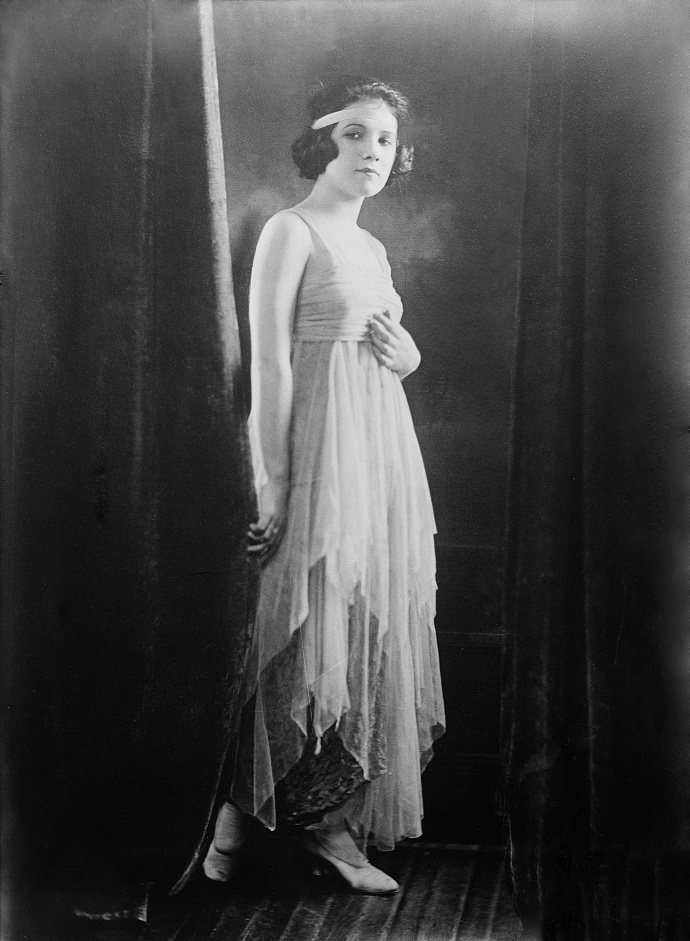 Vivienne Segal circa 1915.